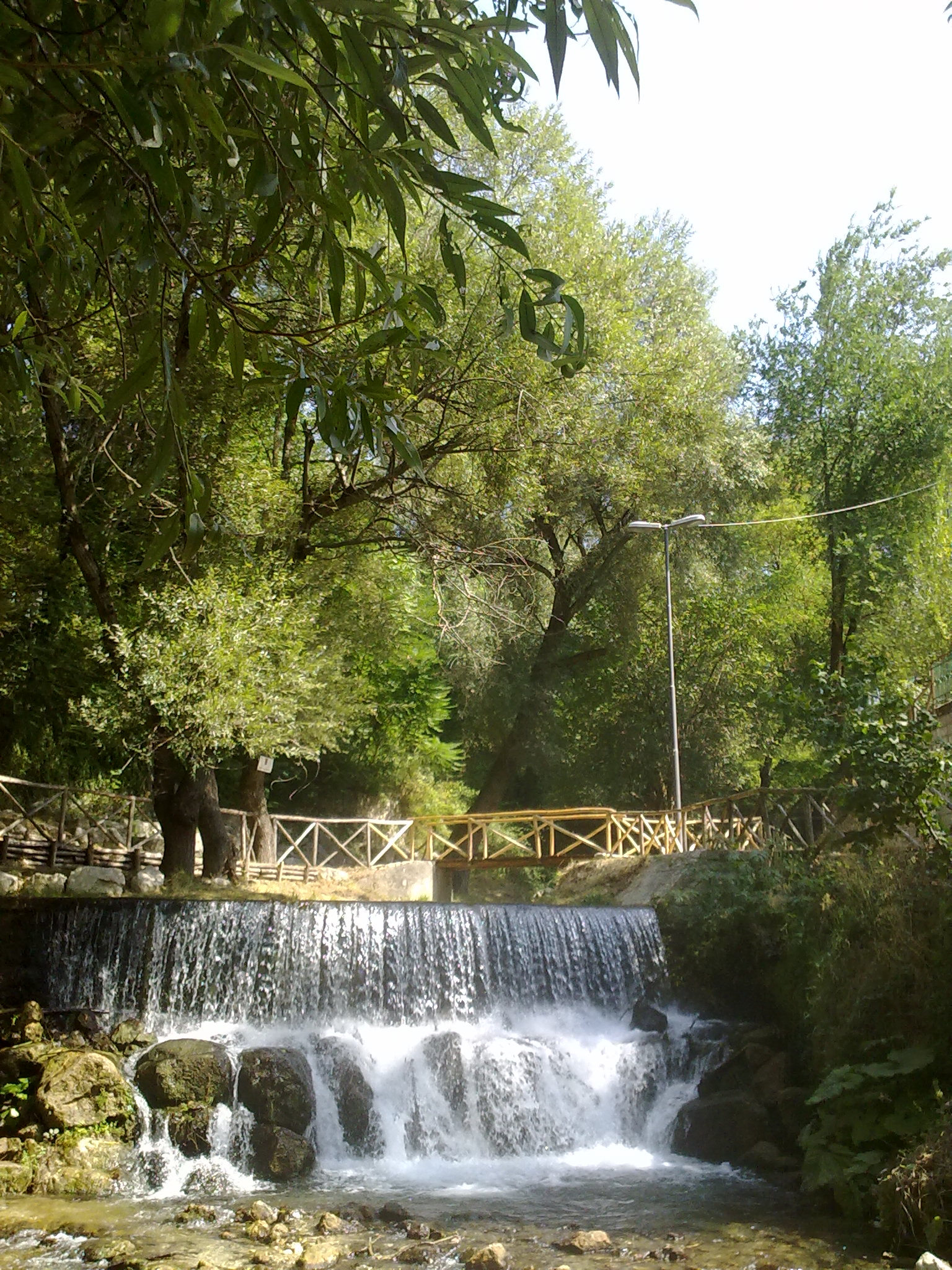 Foto del fiume Sele nel luogo dove nasce, a Caposele, nella zona Tredogge.